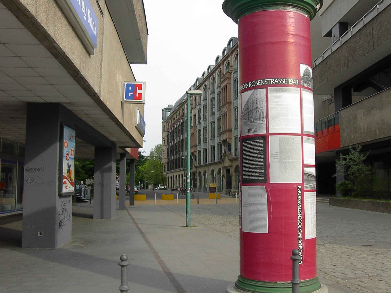 Photo by User:Adam Carr, May 2006